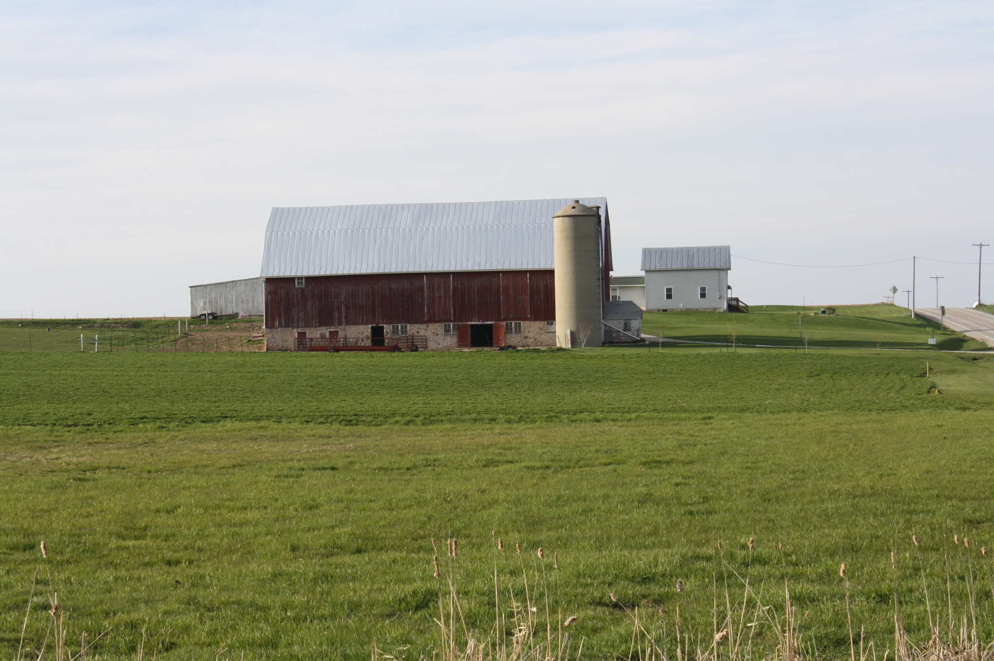 Farmland and a barn in rural Brown County, Wisconsin along Wisconsin Highway 96.